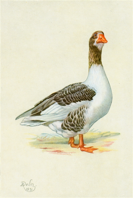 Flemish goose by Delin